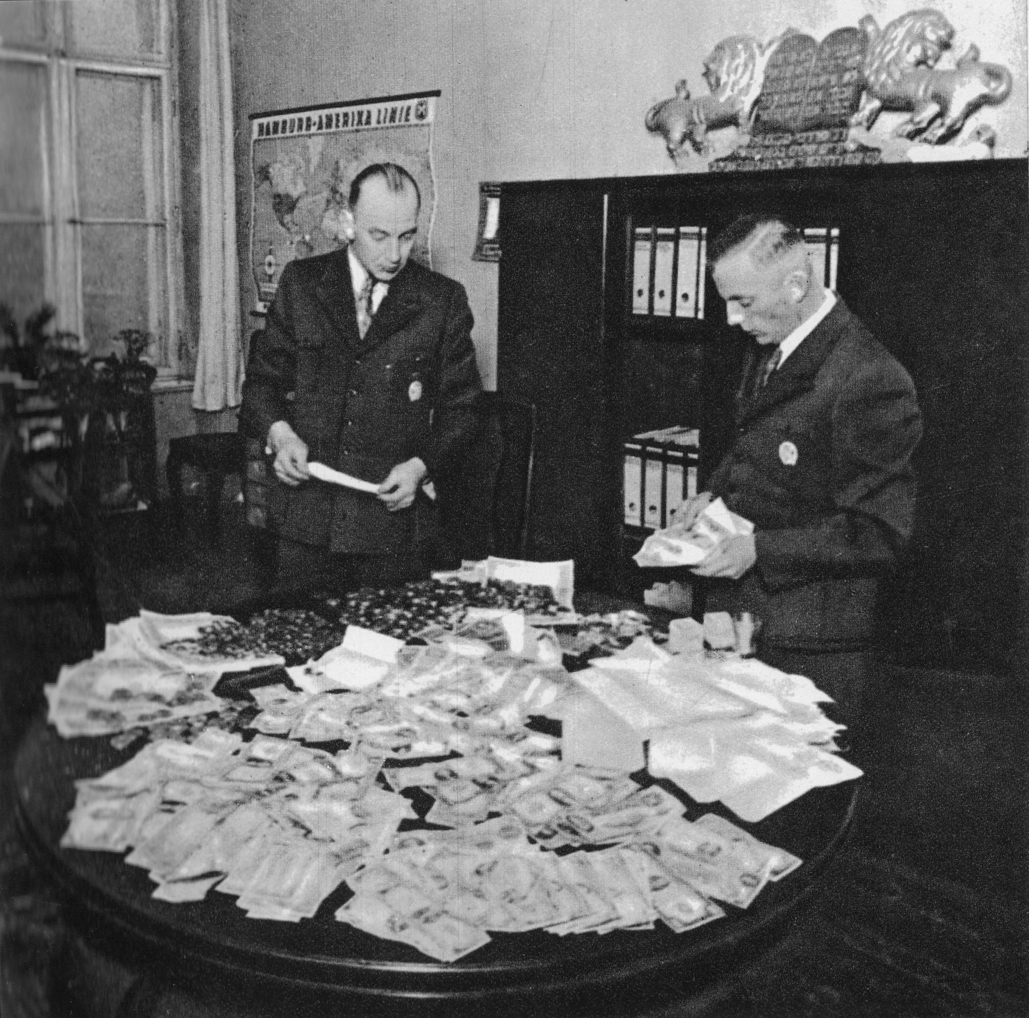 Preparation for shipment to Berlin of transport of gold coins and foreign currency stolen from Jews in Litzmannstadt Ghetto. Hans Biebow, first from the right